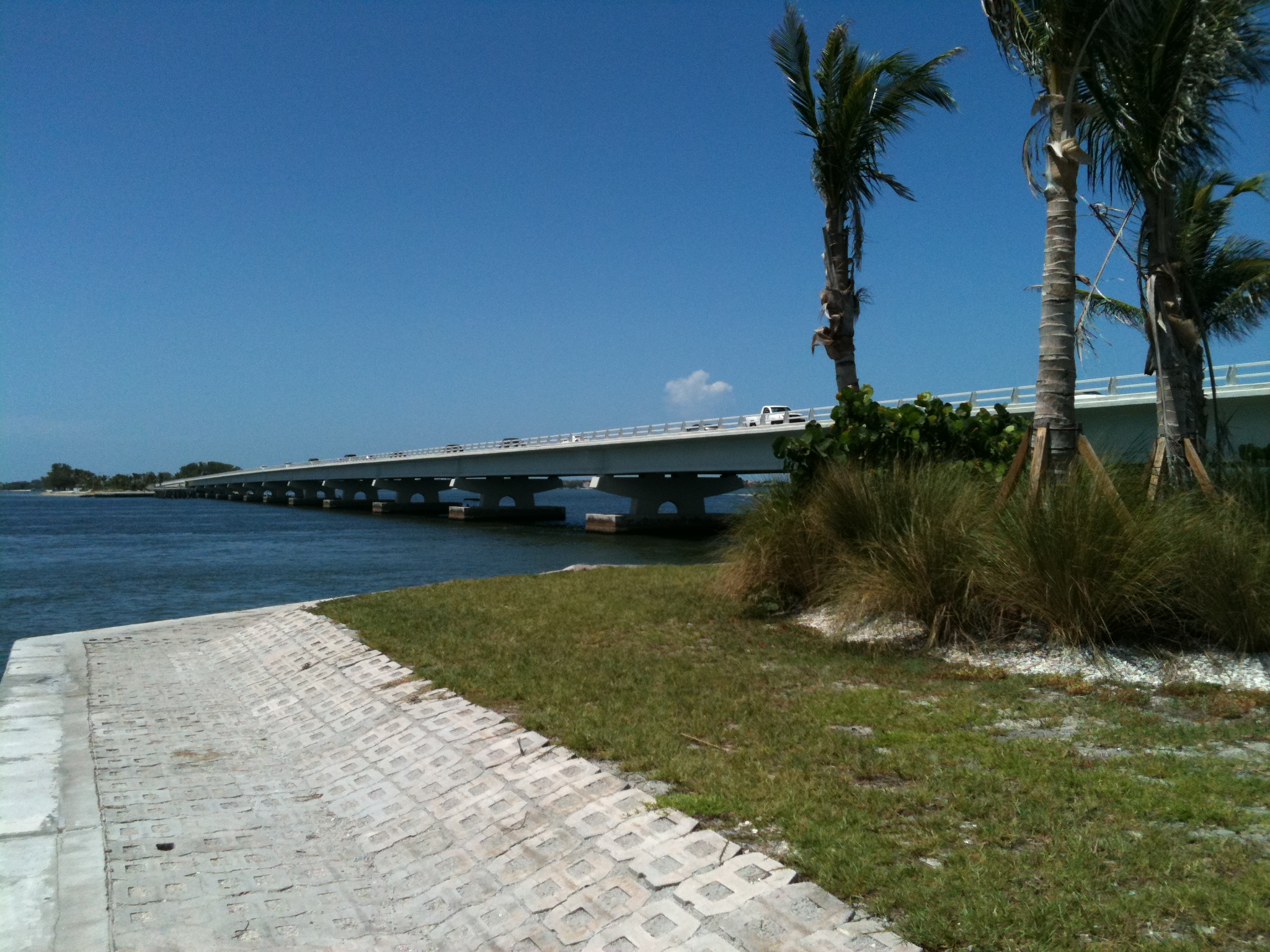 Bridge B of the Sanibel Causeway